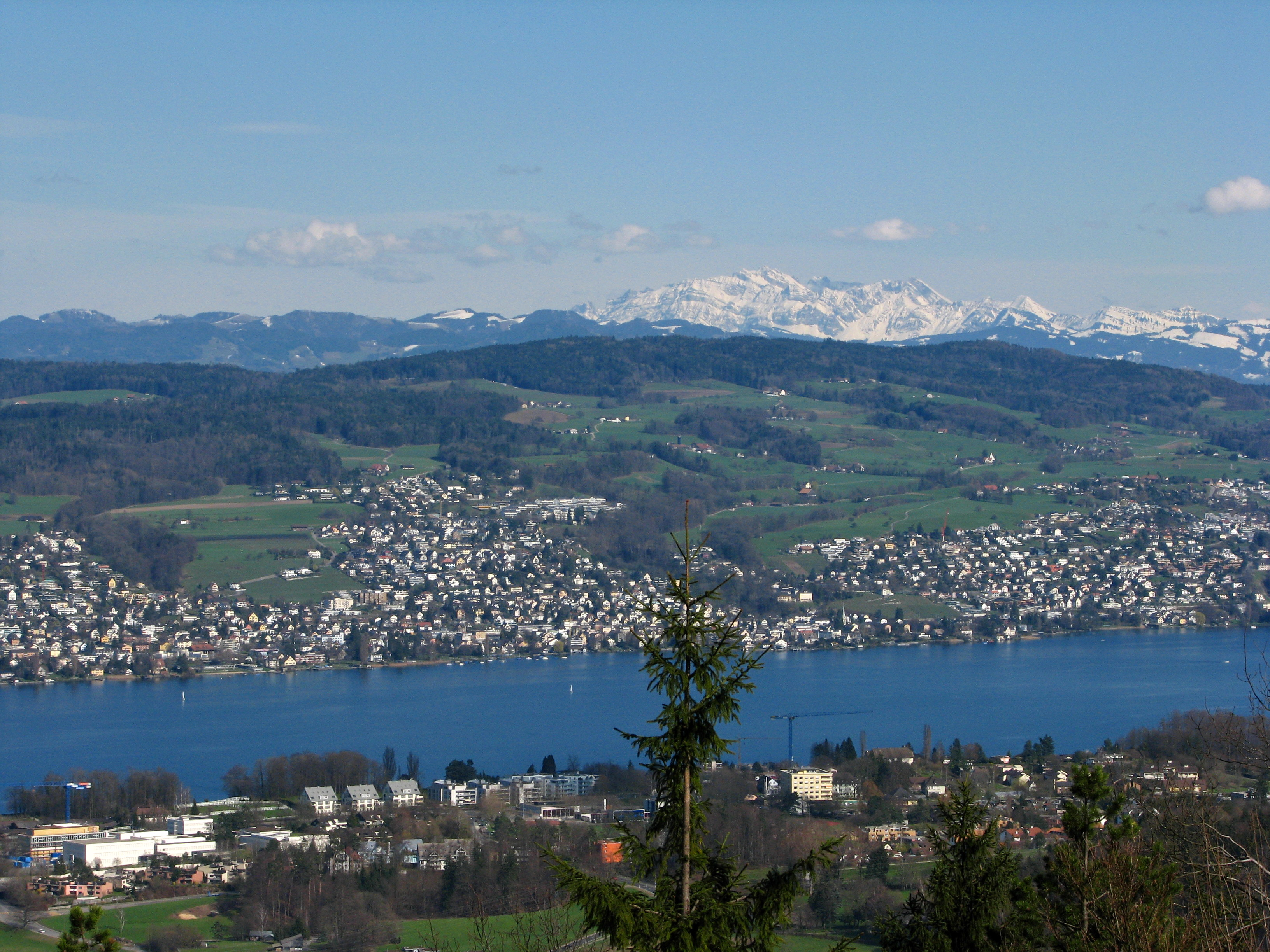 Erlenbach and Herrliberg (to the right) and lower Pfannenstiel as seen from Felsenegg vantage point (Switzerland)